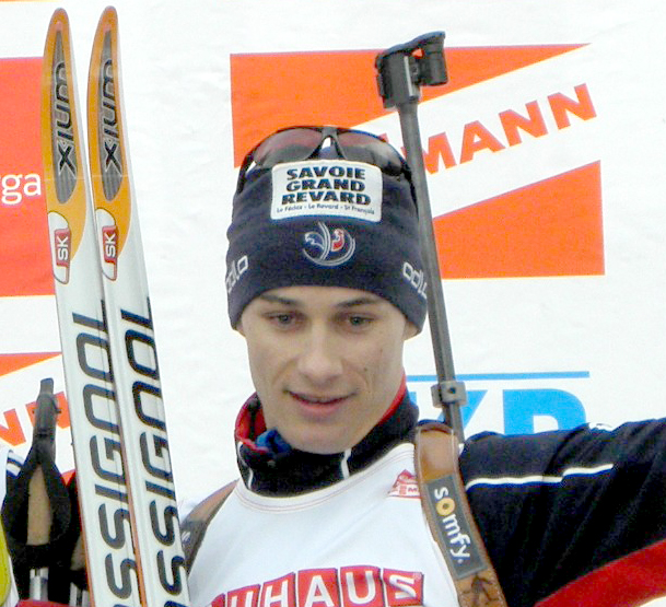 Alexis Bœuf (1986), French biathlete (cropped from Biathlon Antholz 21-01-2010 Podium.jpg